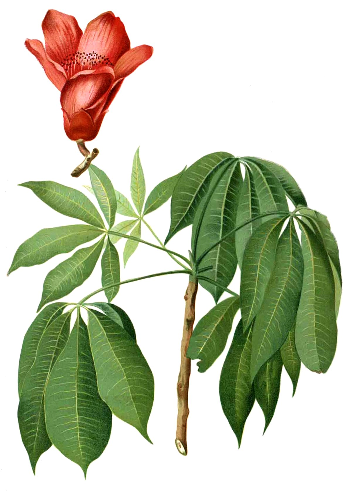 Plate from book